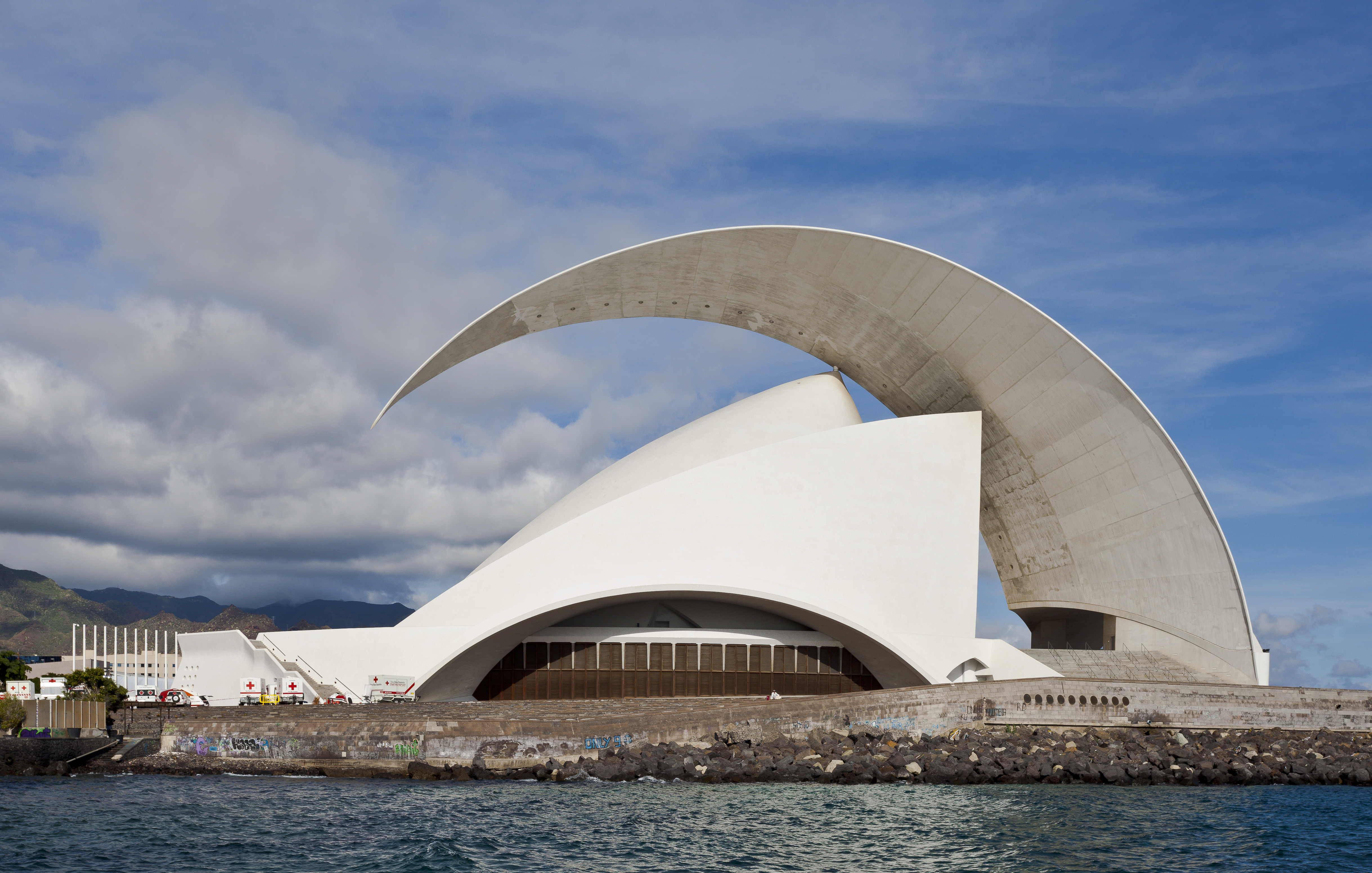 Auditorium of Tenerife, Santa Cruz de Tenerife, Spain